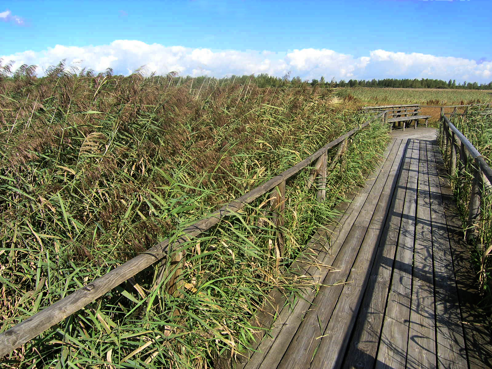 Federsee nature reserve at Bad Buchau, near Biberach an der Riss in South-West Germany